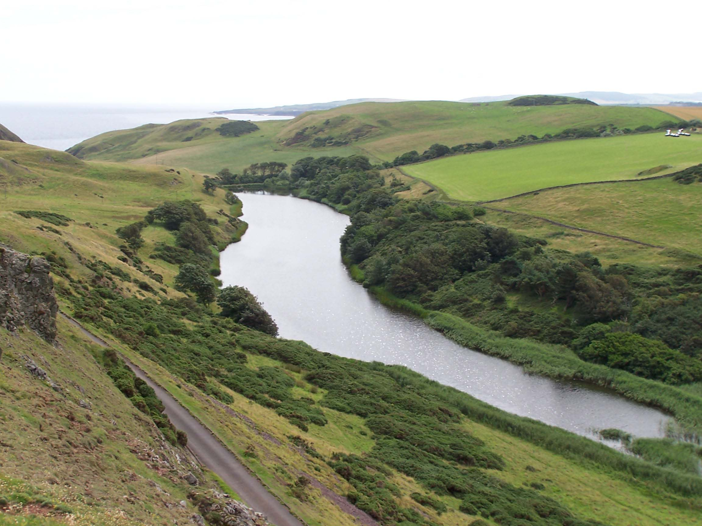 Mire Loch on St. Abb's Head seen from the high ground to the NW.